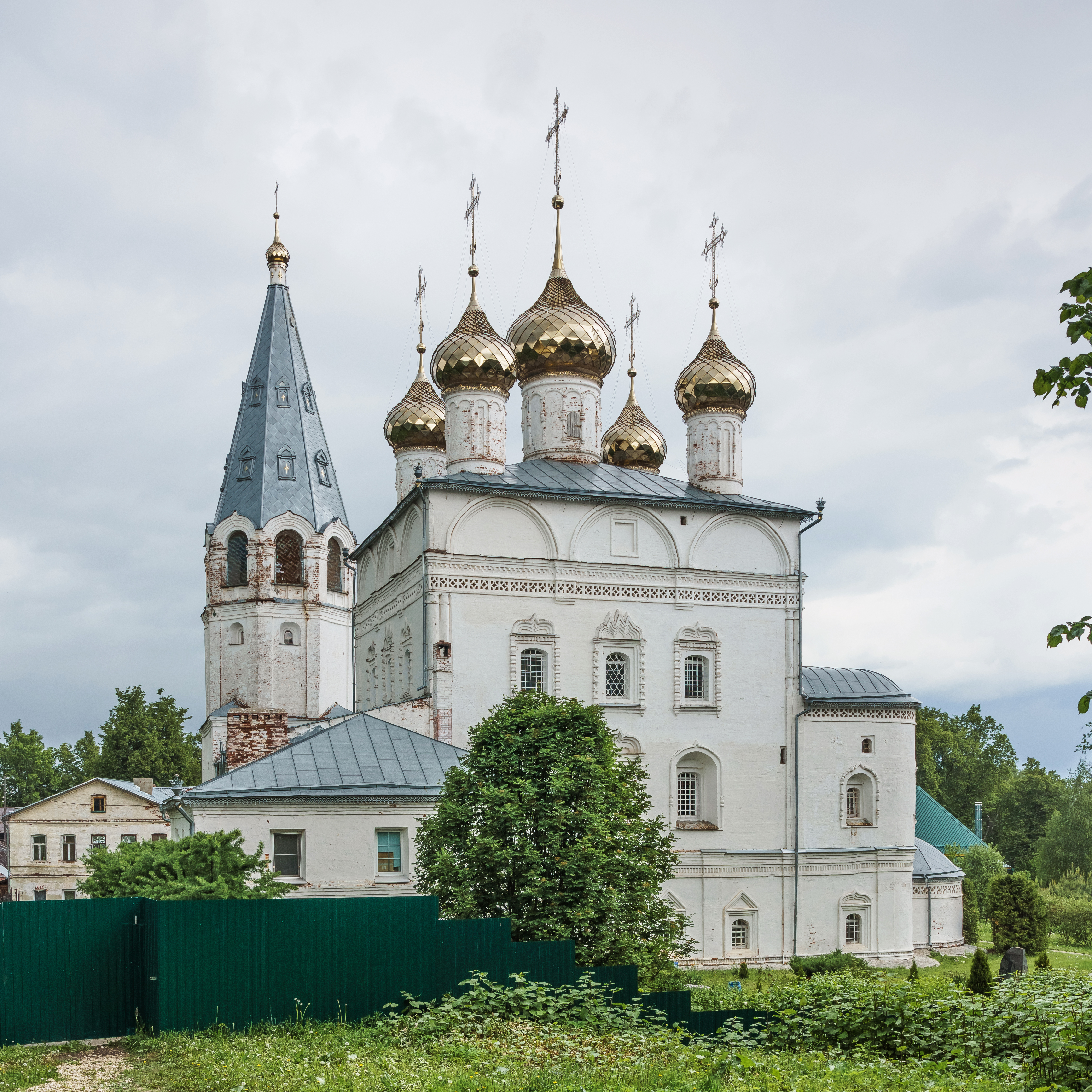 Annunciation Convent in Vyazniki, Vladimir Oblast, Russia